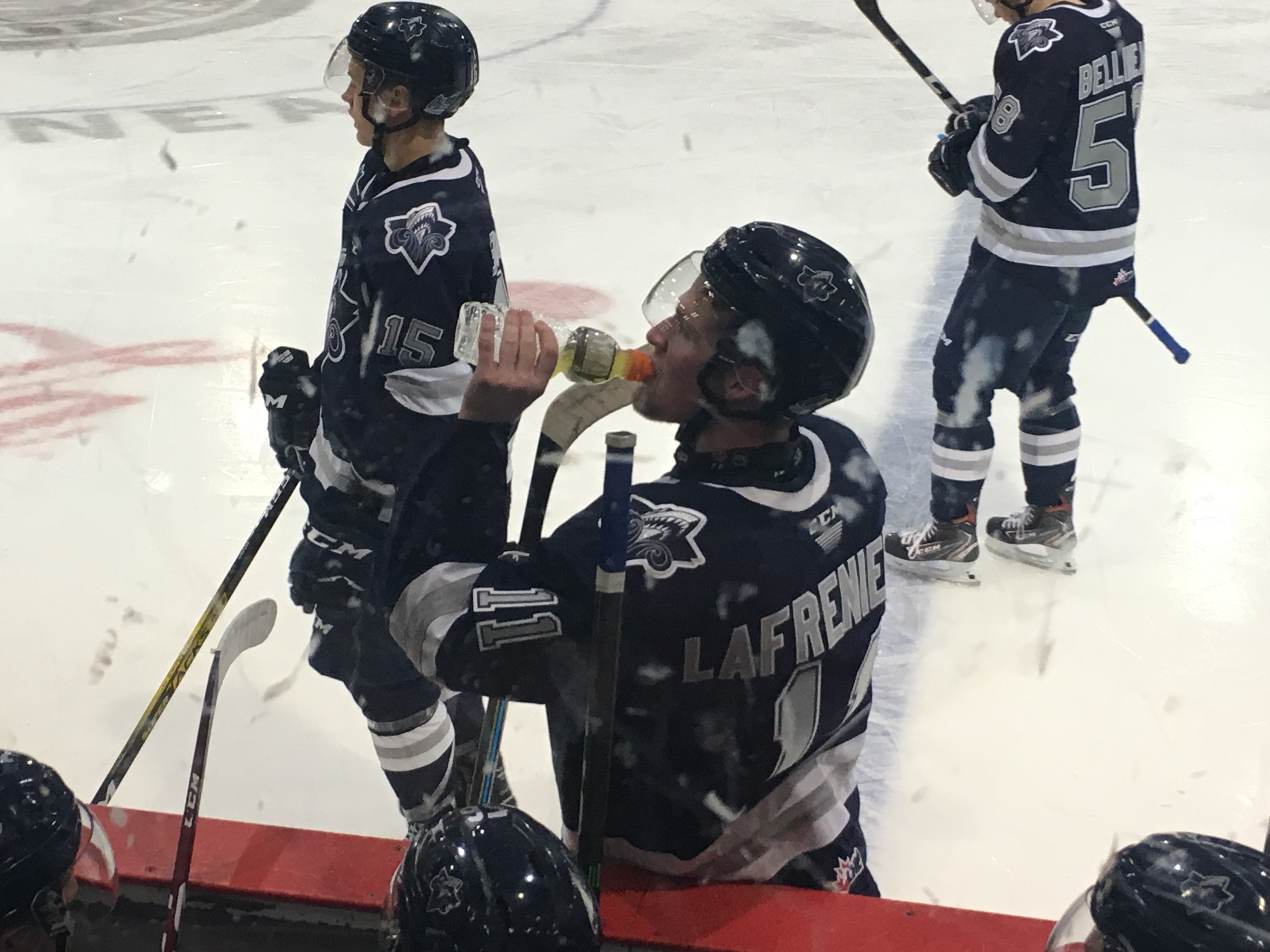 Alexis Lafreniere rehydrates during a stoppage in play. Rimouski Océanic vs Gatineau Olympics - February 9, 2020